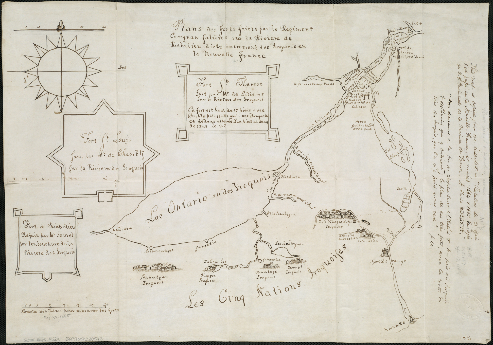 Zoom into this map at . Date: 1665 Location: Canada, New France, New York (State) Dimension: 39x55cm Scale: Scale not given Call Number: G3400 1665 .P53x